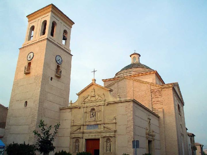 ffffff